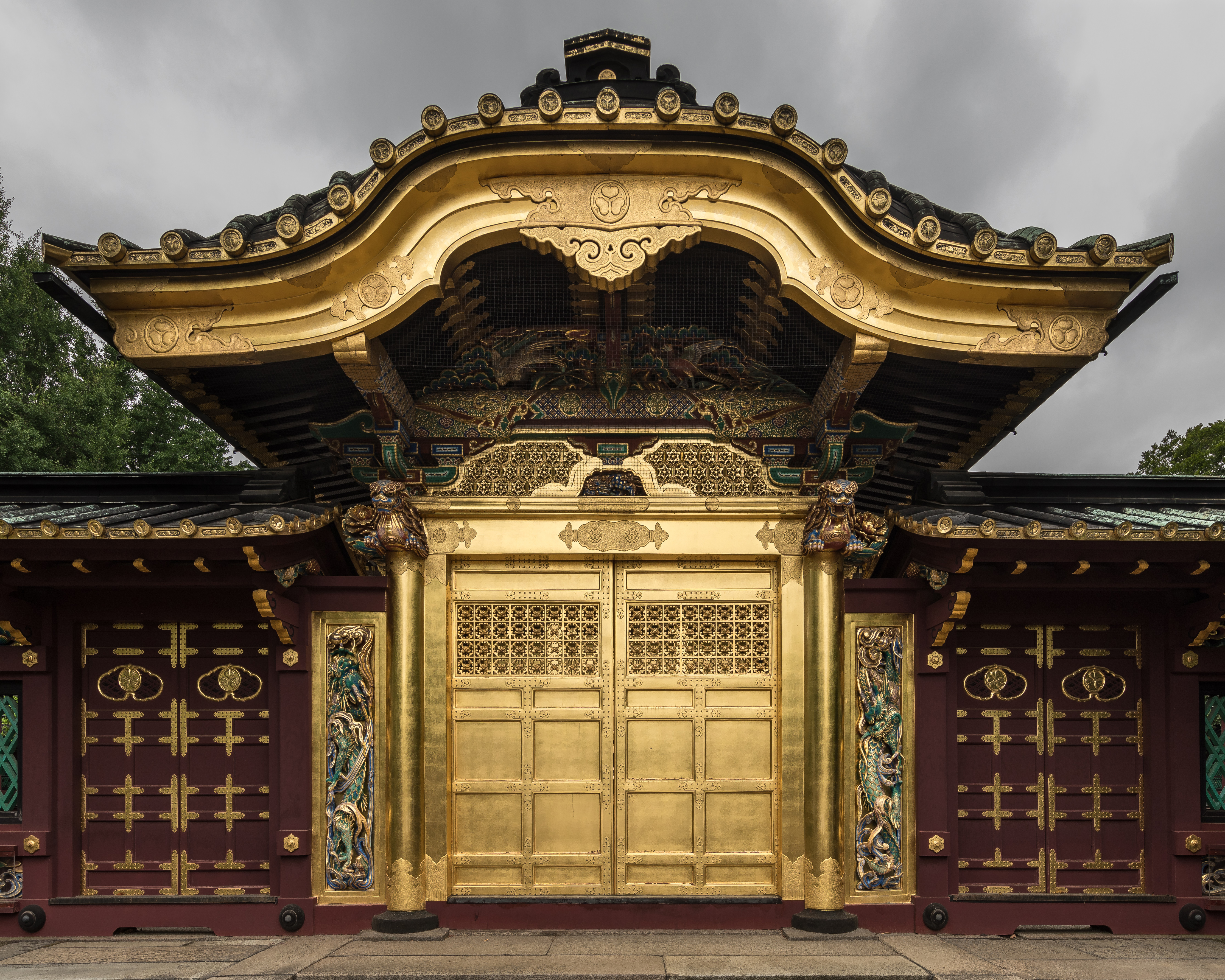 Golden gate of Ueno Tōshō-gū Shinto shrine, in Tokyo, Japan.